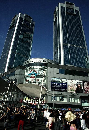 YanShiKou, Chengdu, China